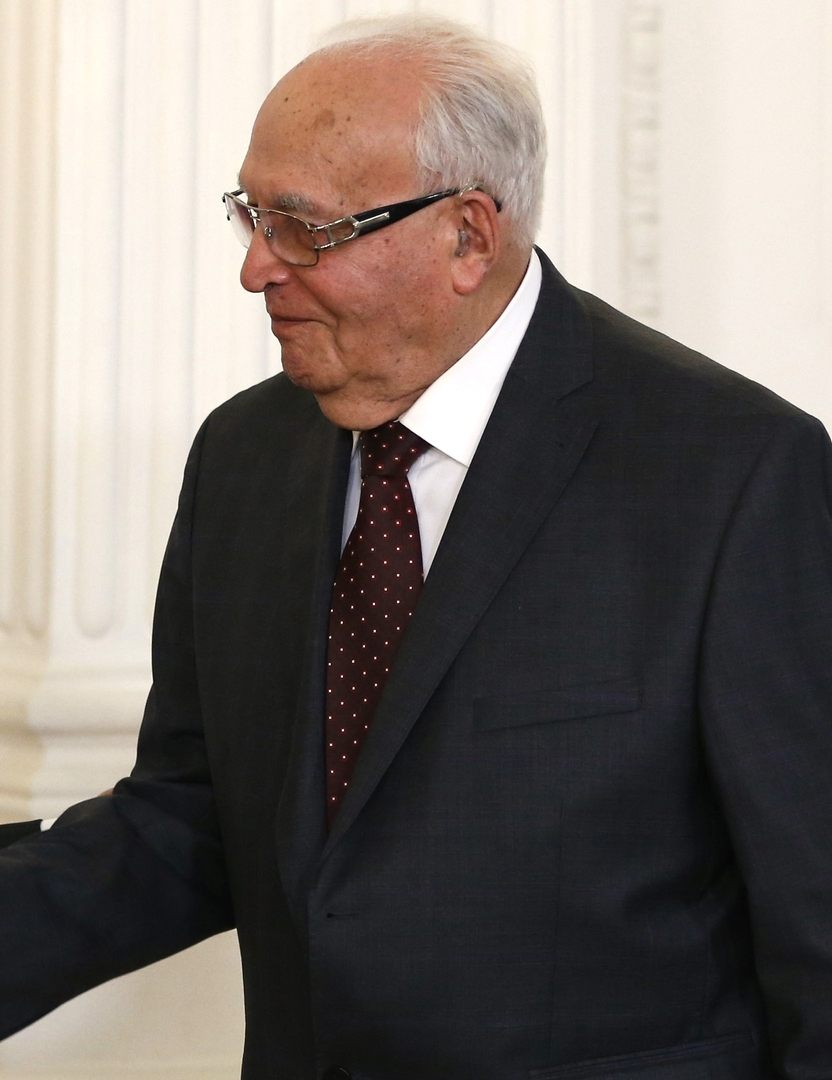 Dmitry Medvedev with Mark Krivosheyev